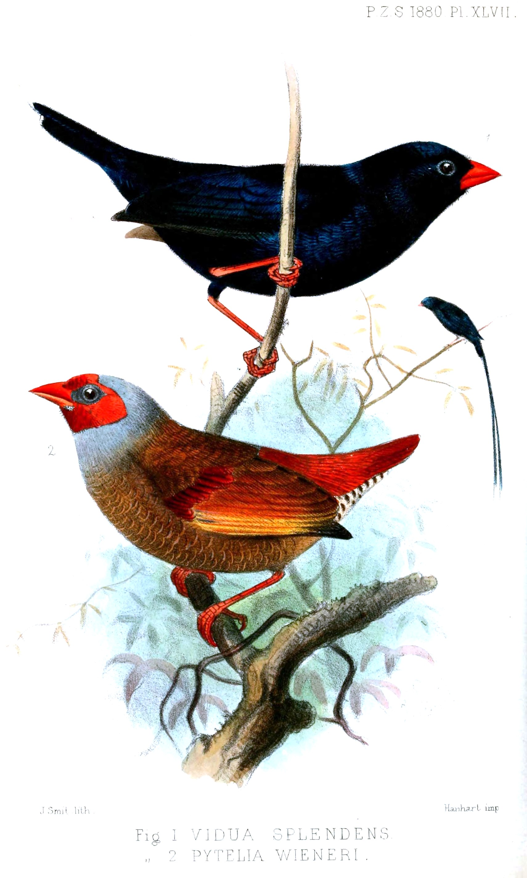 Vidua splendens (bird name has changed, please help retrieve the current one) Pytelia wieneri = Pytilia afra